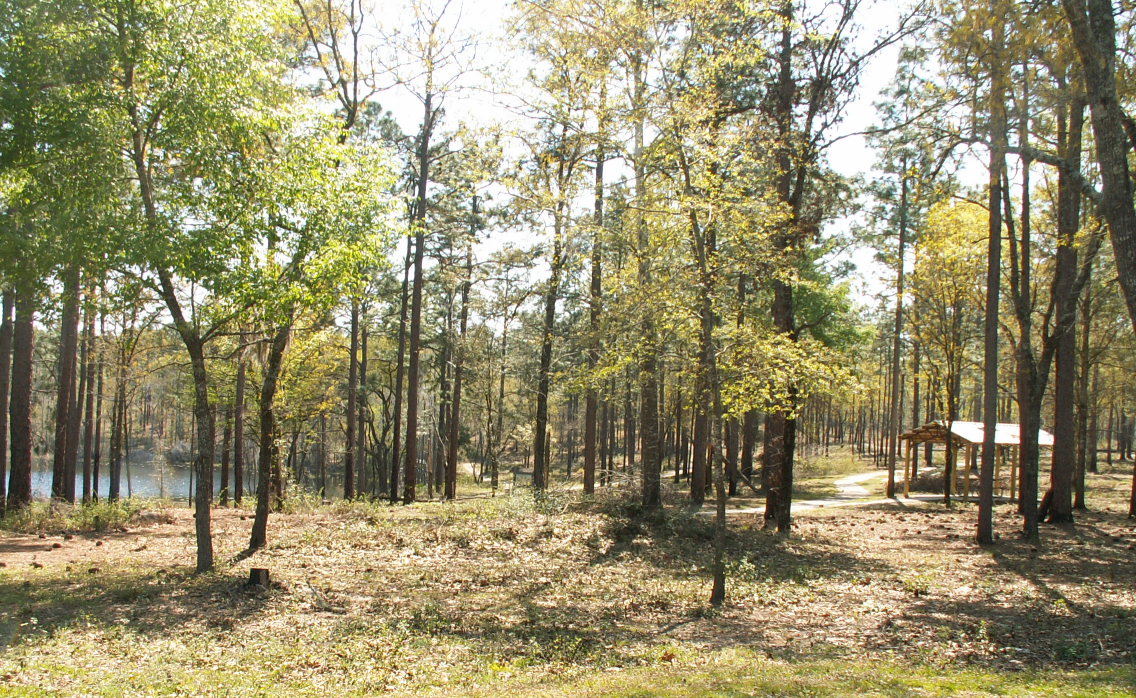 Sand Pond, at Trout Pond Recreation Area, Apalachicola National Forest, off of Springhill Road southwest of Tallahassee, Florida, USA.